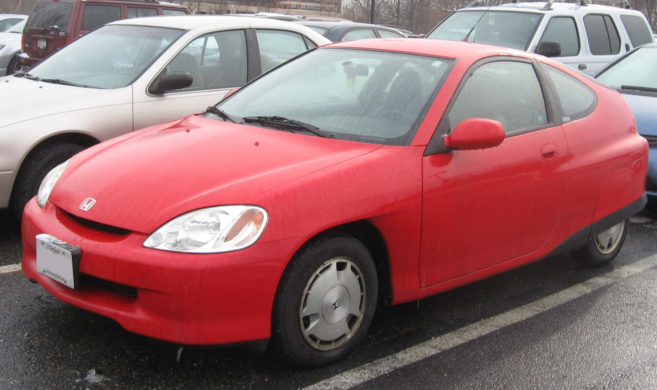 Honda Insight photographed in College Park, Maryland, USA.